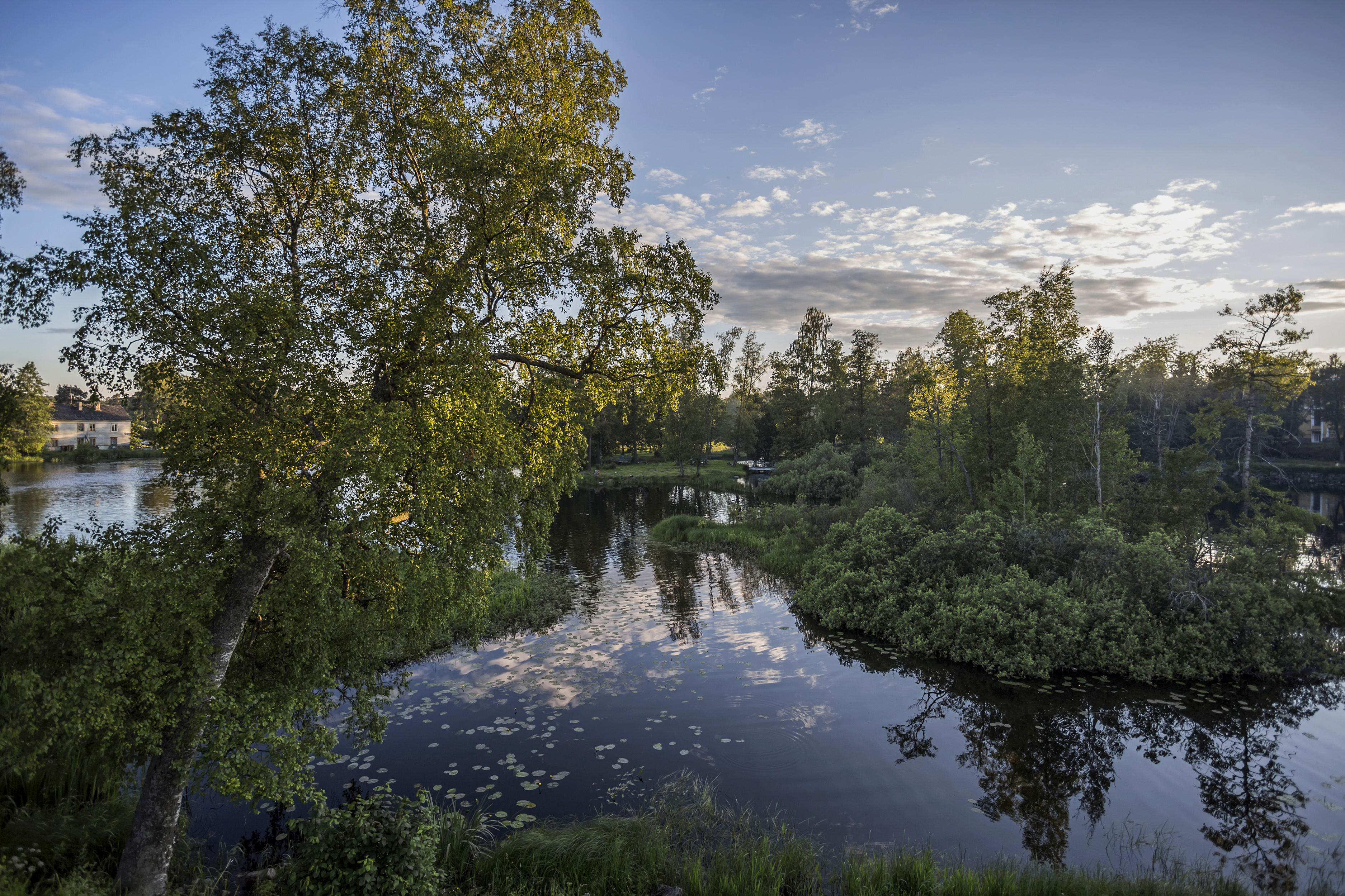 Priozersk. A view to the park in front of curtains of New Fortress from Round-gate tower